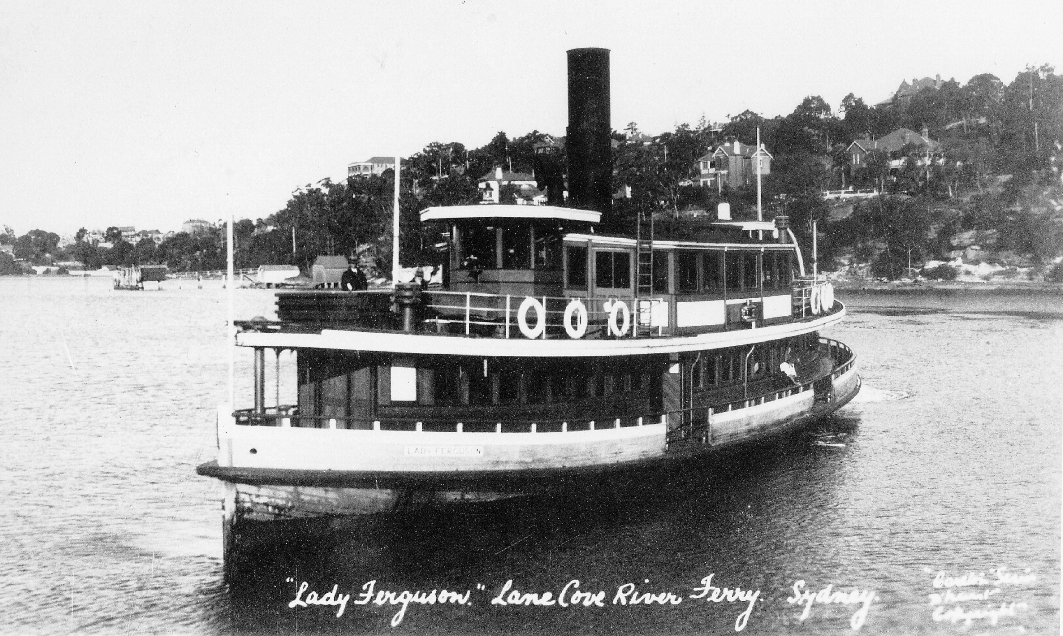 Sydney ferry LADY FERGUSON circa 1920s on Lane Cove River heading downstream to Sydney